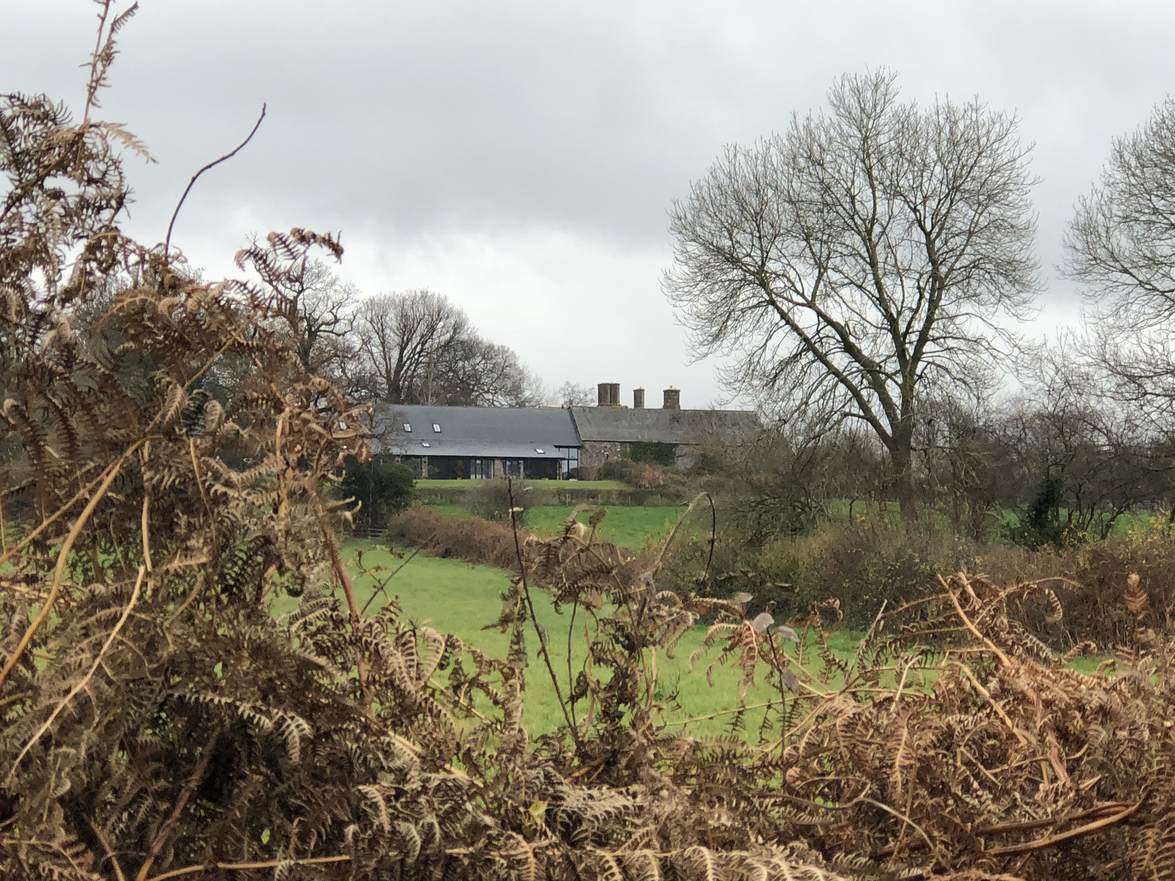 Blaengavenny Farmouse, Llanvihangel Crucorney